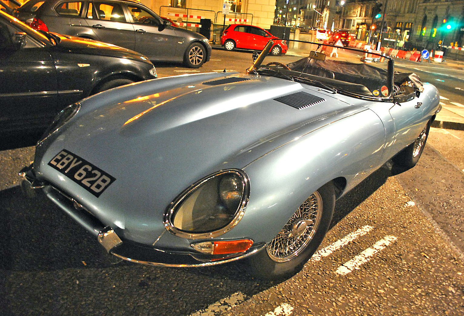 Jaguar E-Type Series 1 4.2 Roadster, pictured in London